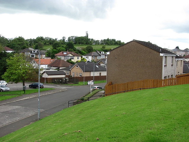 Landemer Drive